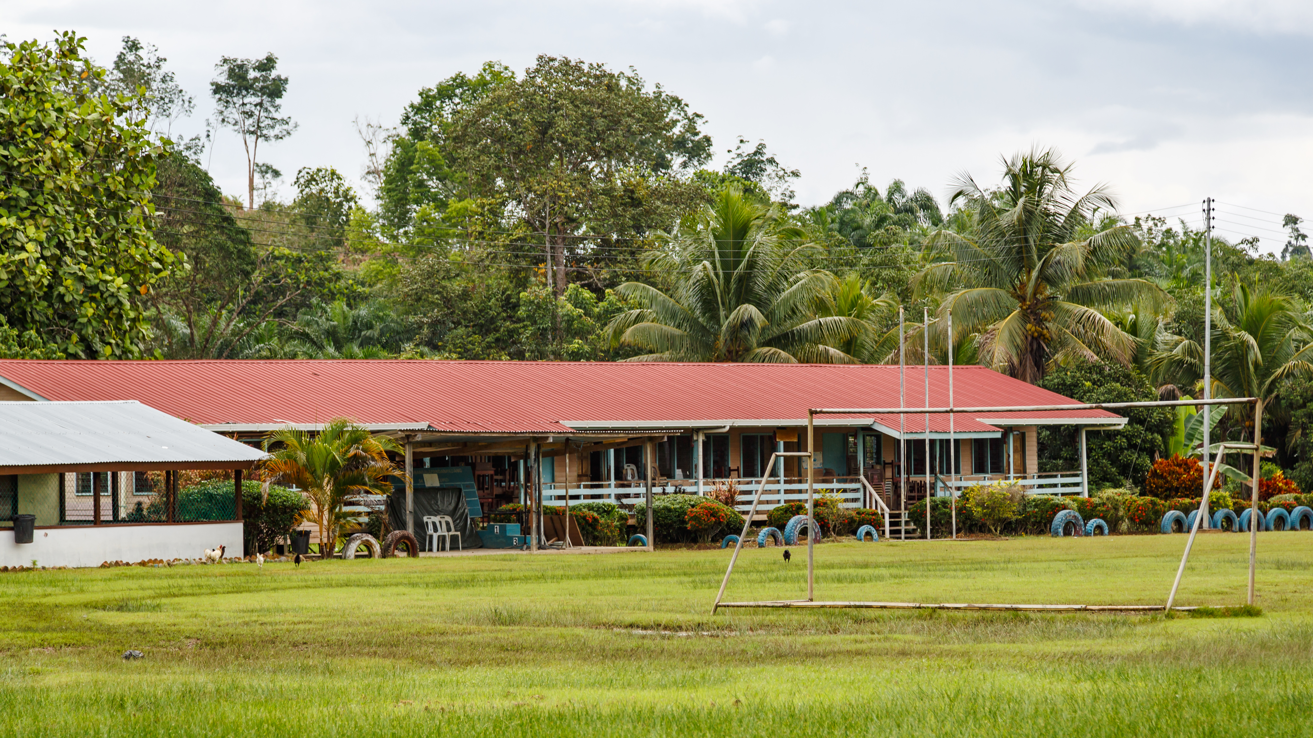 Kg. Buis, Telupid, Sabah: SK Buis, a primary school in Telupid subdistrict.